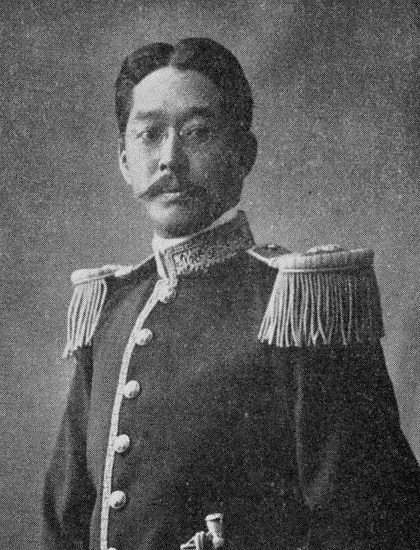 Seiichiro Terajima